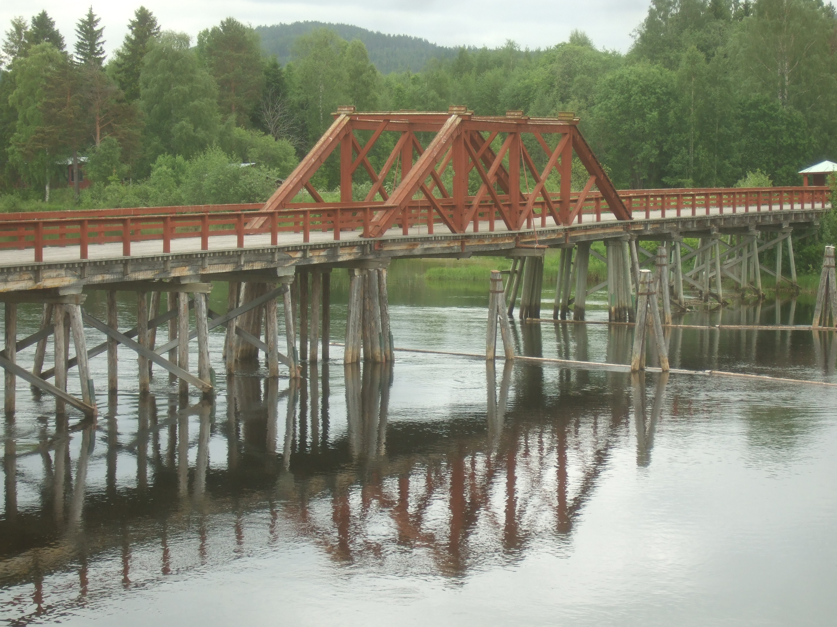 Middle section of the wooden bridge "Vikbron" across Ljungan at Torps-viken 123, Fränsta, in Ånge Municipality, viewed from northwest